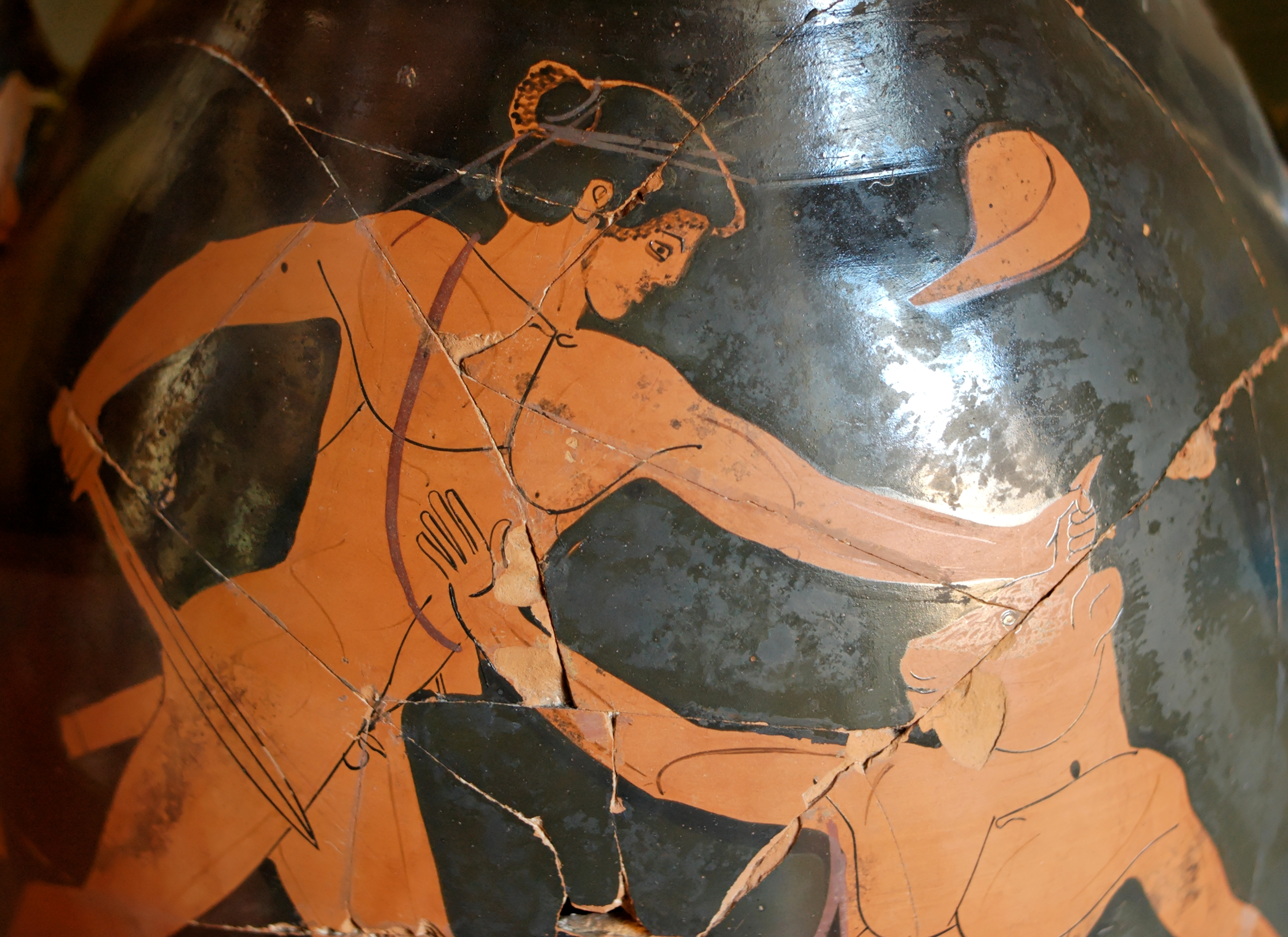 Theseus and the Minotaur. Side A from an Attic red-figure pelike. From tumulus Regolini-Galassi in Cerveteri.